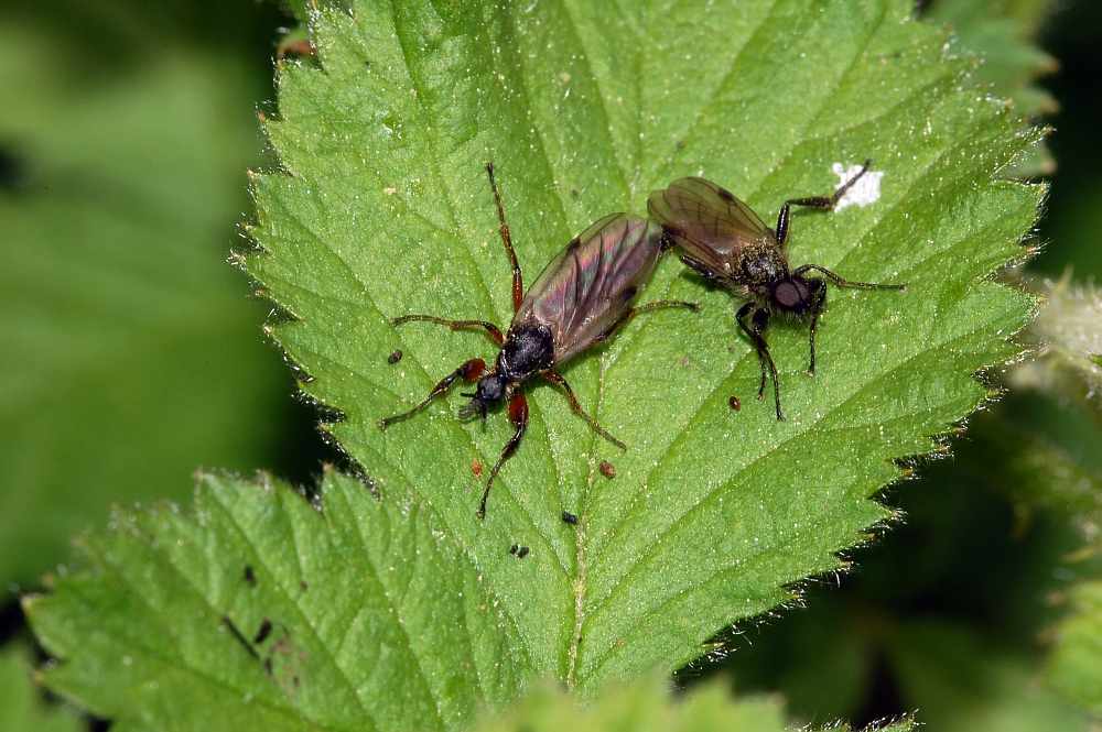 cf. Bibio pomonae, Schwanheim Dune, Frankfurt/Main, Germany